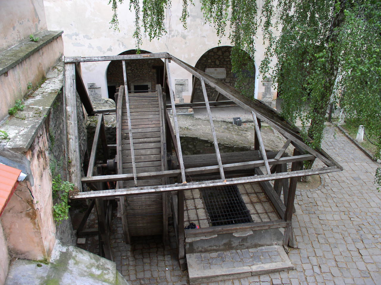 Well. Palanok сastle. Mukacheve, Ukraine.